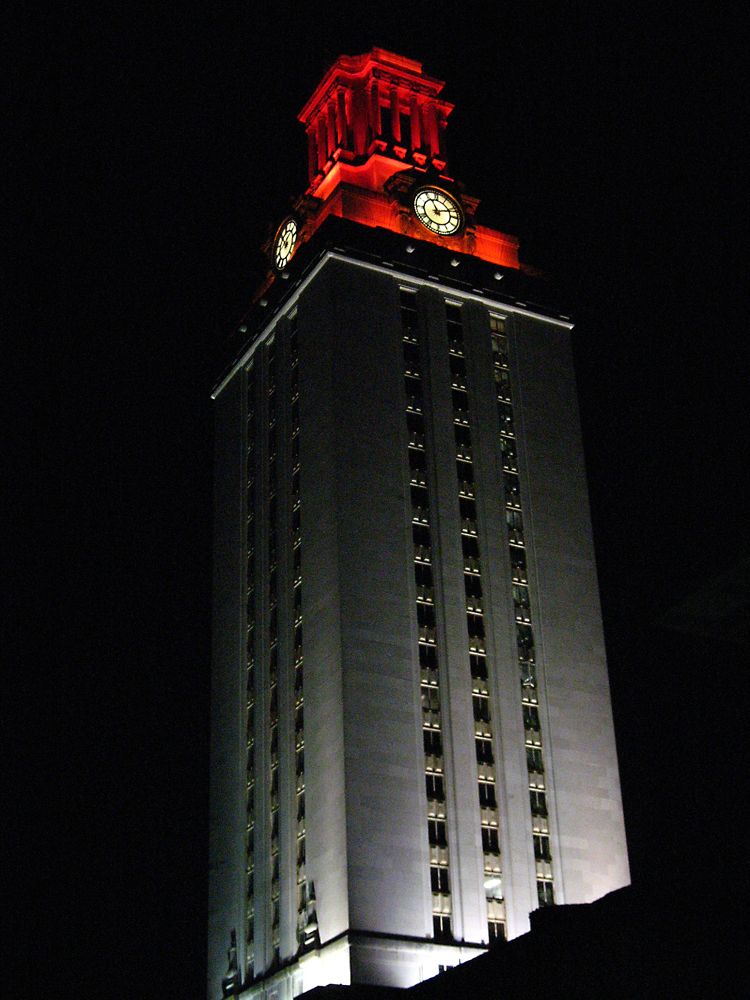 The famed tower (aka Main Building) at the center of the University of Texas, Austin, TX, September 22, 2007. The tower is lit in different color schemes for different events.